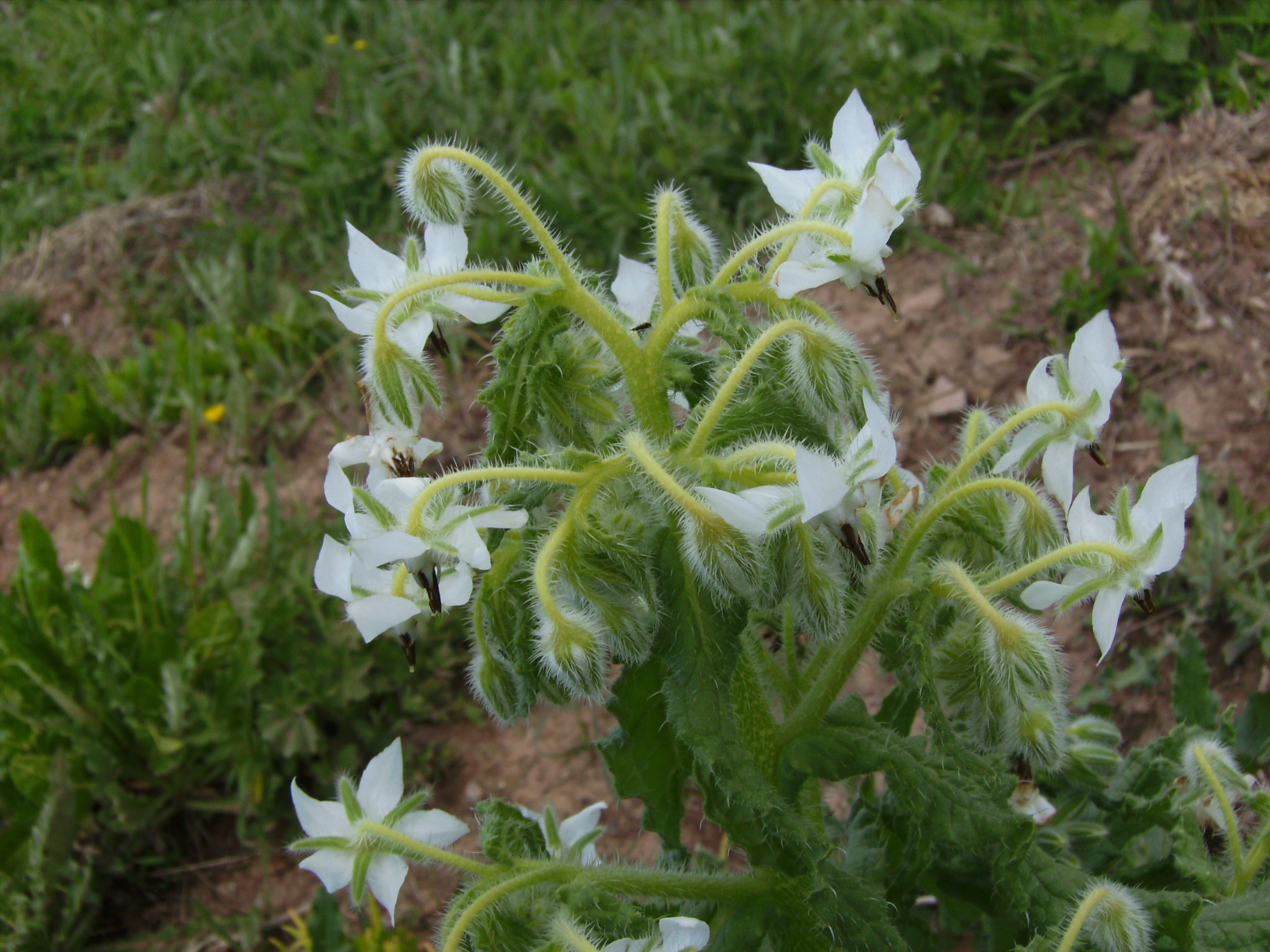 A white flower borage (Borago officinalis) cultivar, Catalonia